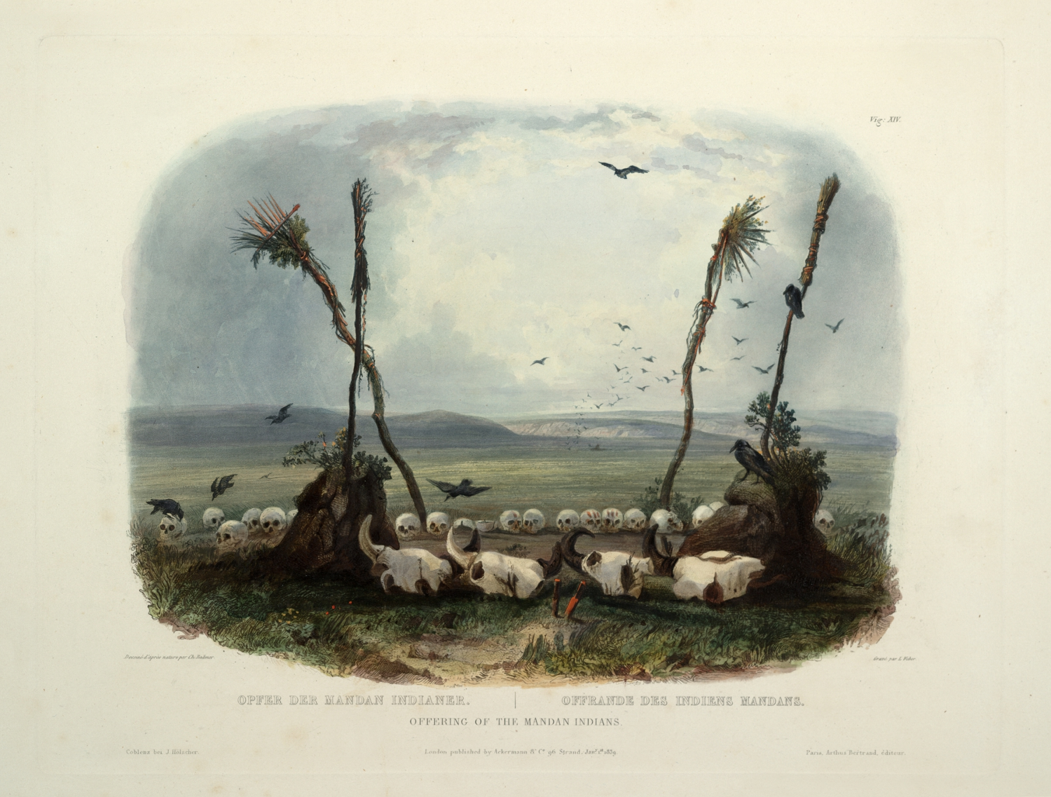 Title: Offering of the Mandan IndiansAquatint by Karl Bodmer from the book "Maximilian, Prince of Wied’s Travels in the Interior of North America, during the years 1832–1834" by Prince Maximilian of WiedPublisher: Ackermann & Co.